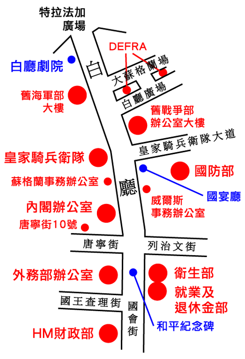 Outline map of Whitehall, London, showing the position of the major UK Government buildings there.